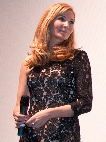 Jennifer Westfeldt at the Toronto International Film Festival 2011.